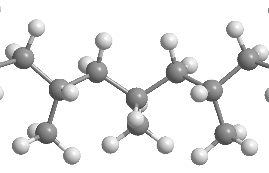 Polypropylene isotactic ball-and-stick model done by chem3D program with 3 countable monomers